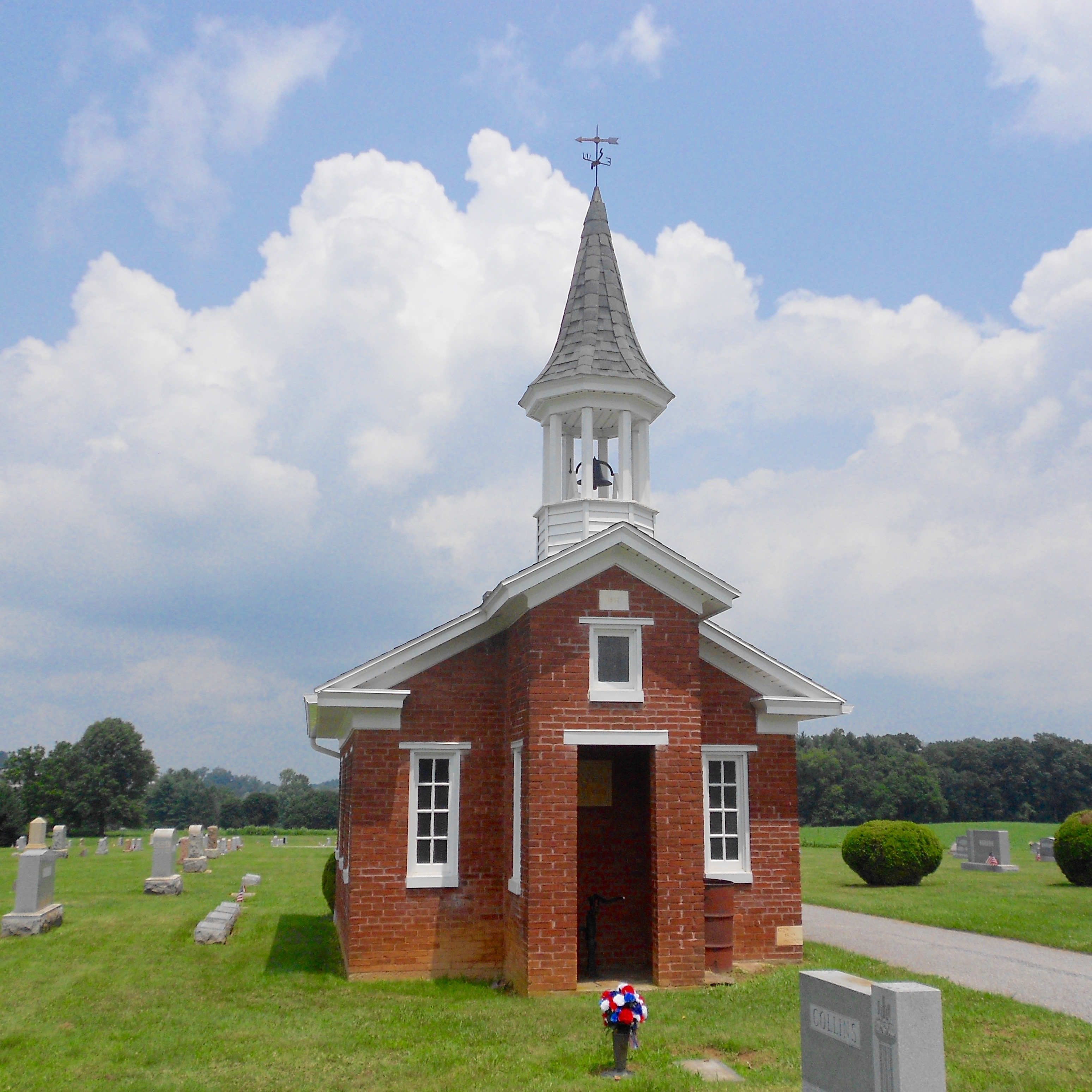 Building in the cemetery in the unincorporated village of Freysville in Windsor Township, York County, Pennsylvania. Though it looks very much like a small chapel, the building is almost certainly a crematorium, with a small but serious chimney in the back, the "front entrance" is for decorative purposes only and the real door is on the side wall to the right, double wide and covering almost the entire wall.